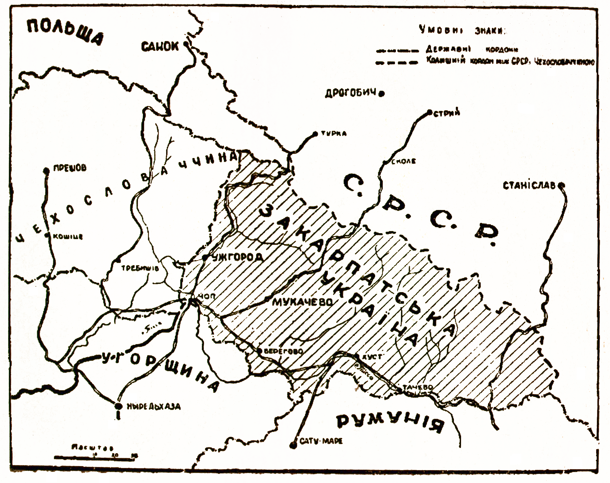 Territorial evolution of Ukraine in 1945